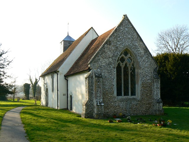 St James's church, Upper Wield, Hampshire This small church dates to the 12th century although possibly with later extensions. Not a great deal about it on the web. It contains a fine memorial within.